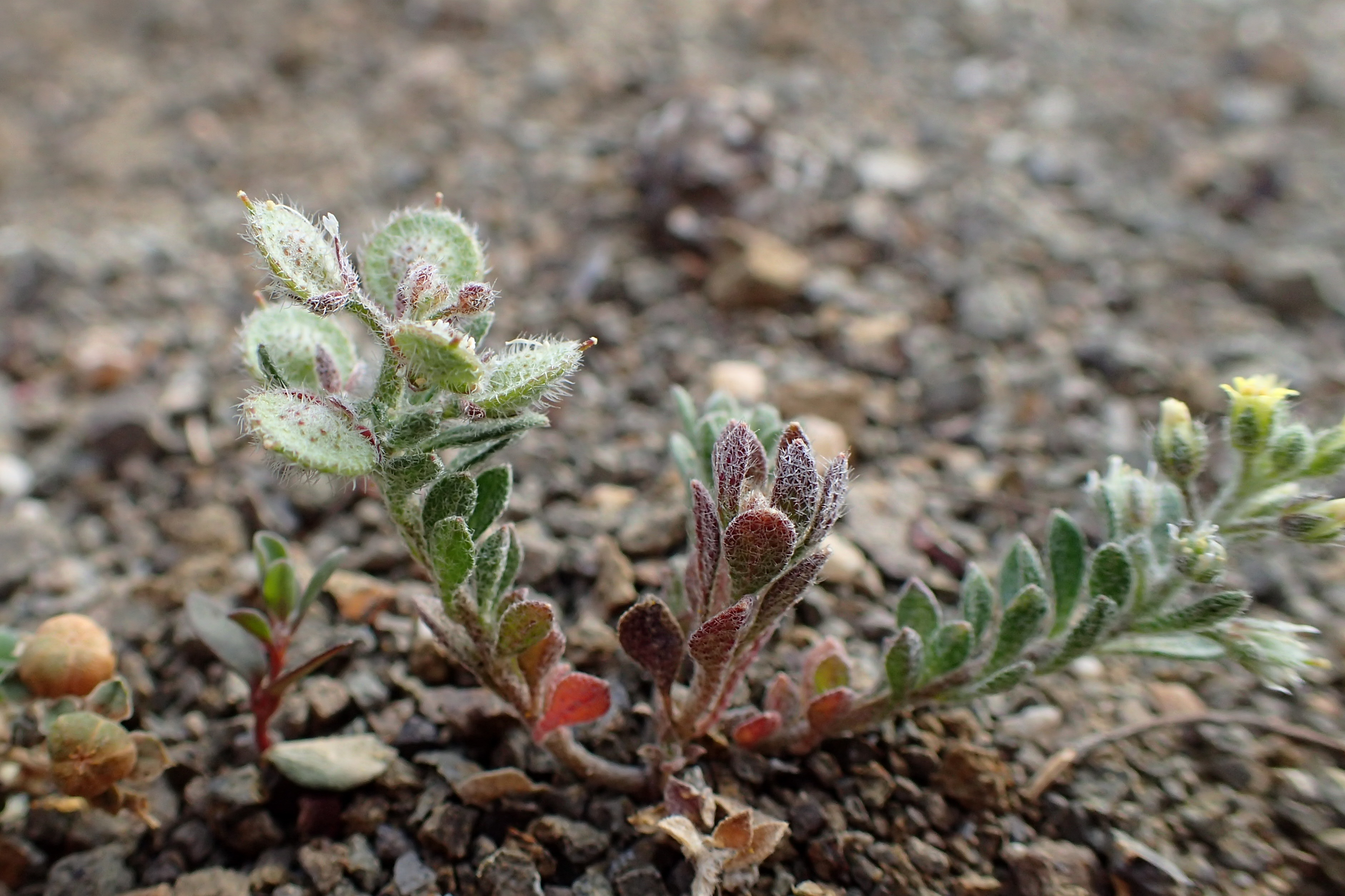 Alyssum strigosum in Analiontas, Cyprus